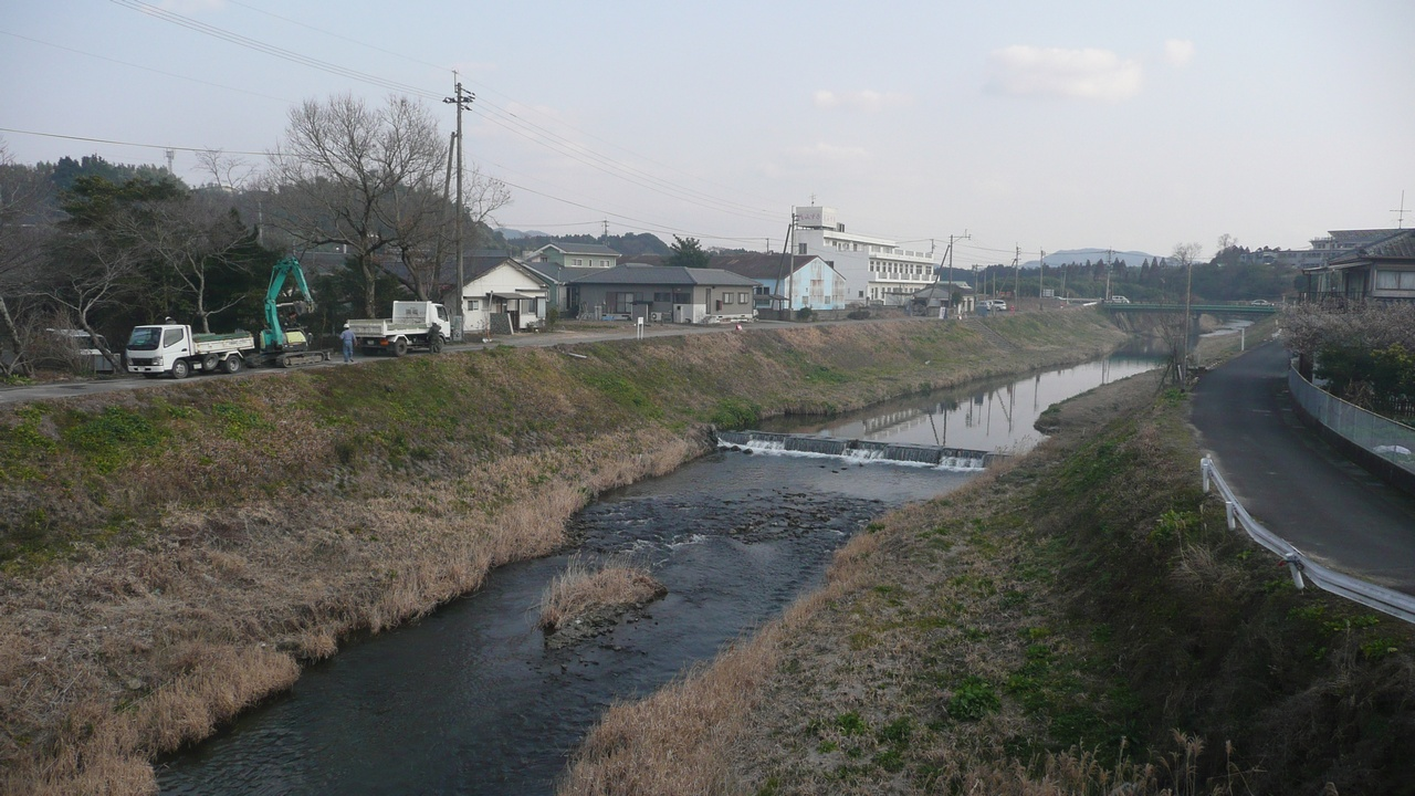 Ooyodogawa River (Soo City, Kagoshima, Japan)